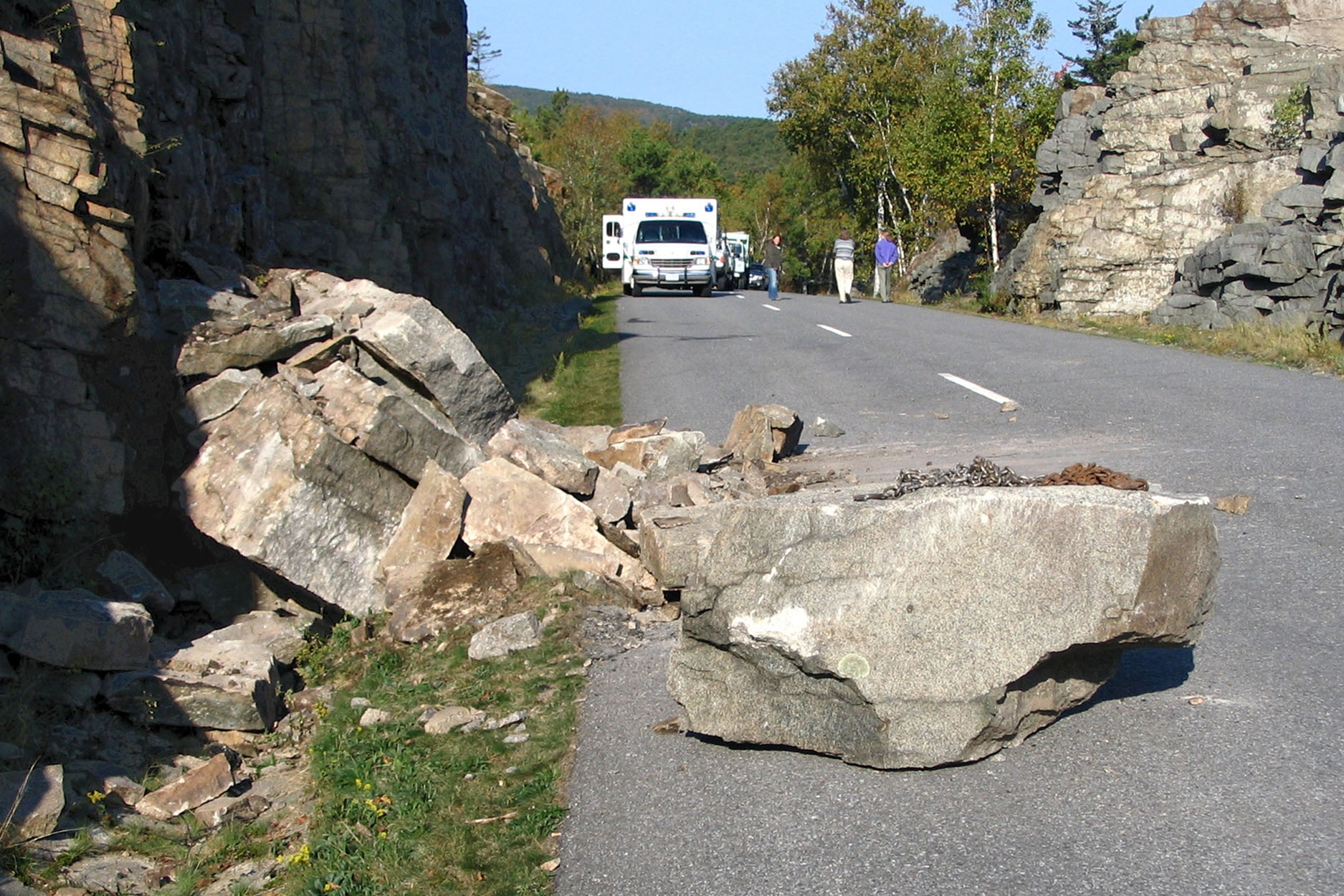 Rockfall on the park loop road of Acadia National Park, Maine, United States